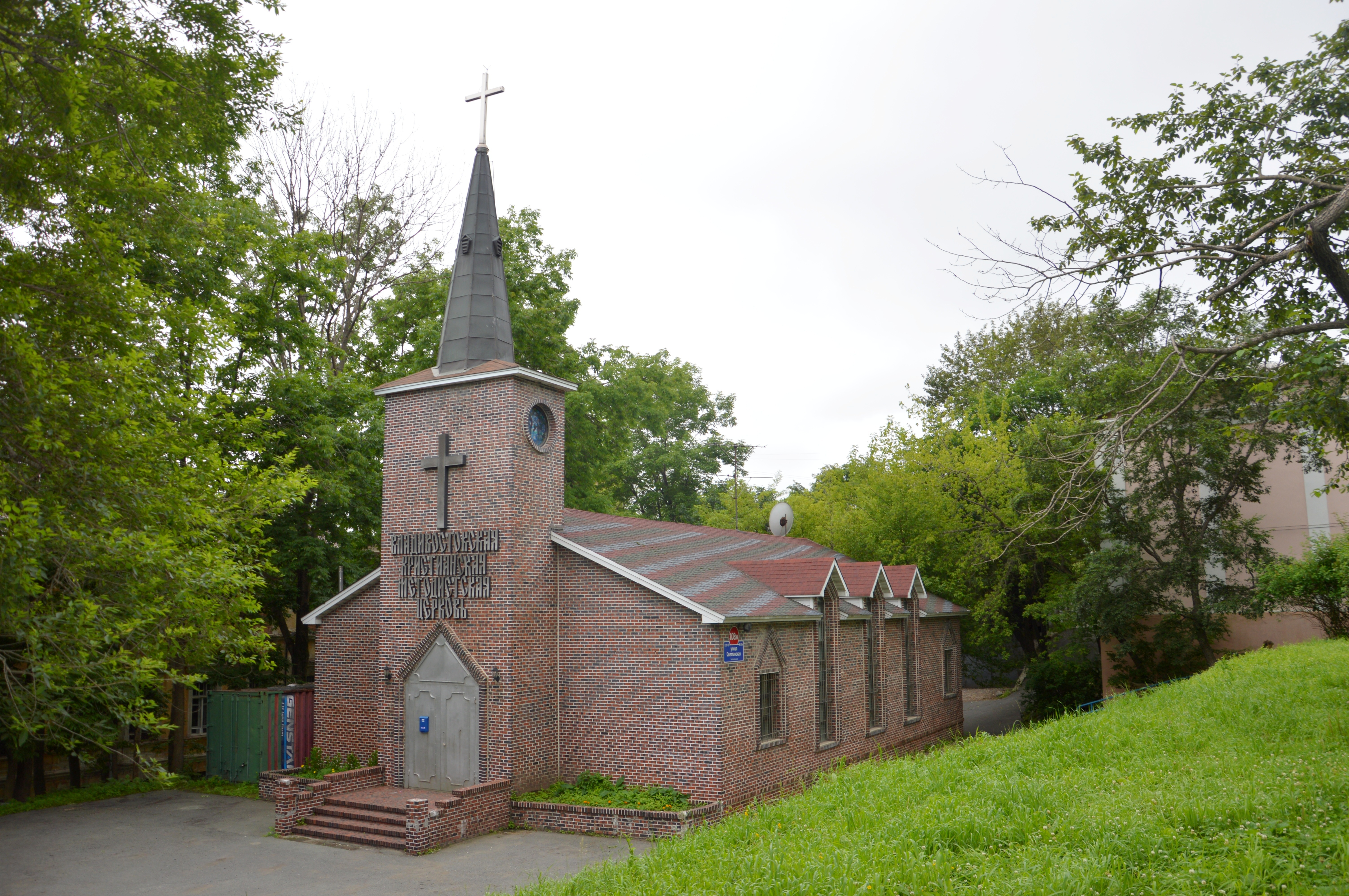 Vladivostok Methodist Church